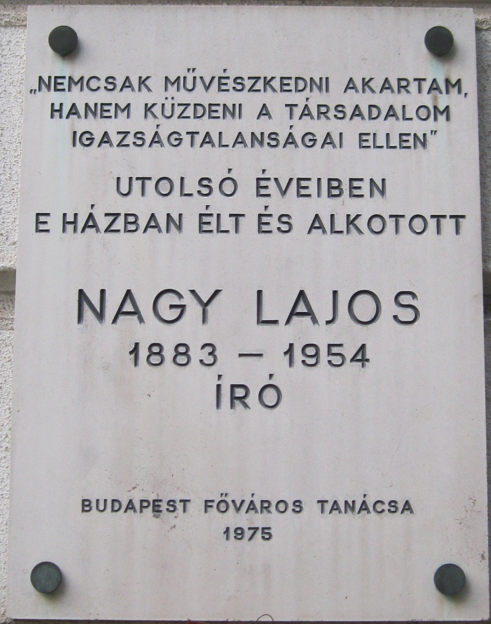 Commemorative plaque of the writer Lajos Nagy in Budapest District II, Házmán Street No 10.